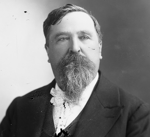 Robert N. Bodine (Missouri Congressman)